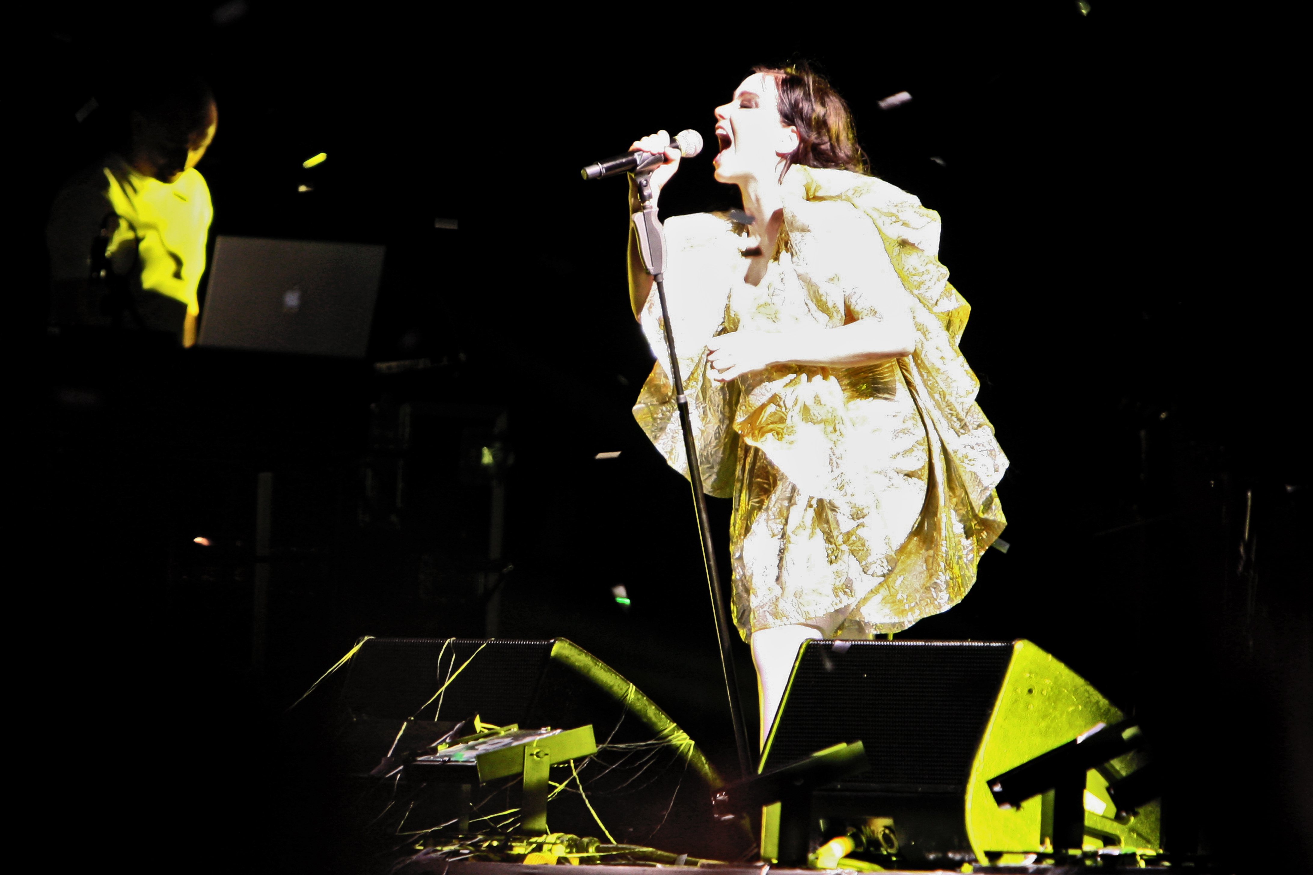 Björk at Festival Rock en Seine, Paris, France.This is not overexposed.